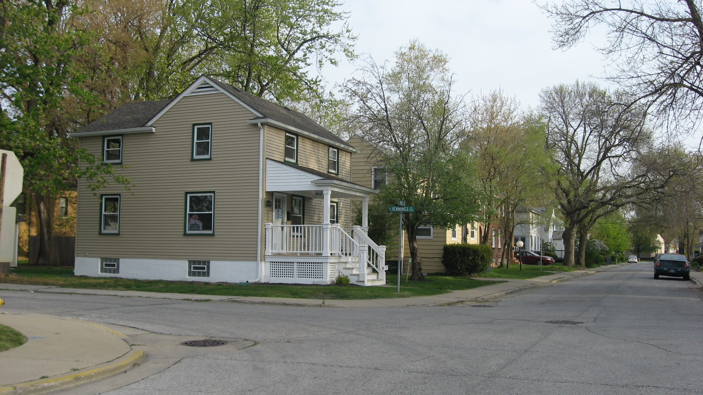 Houses on the western side of the 6100 block of Ray Avenue in Hammond, Indiana, United States. Built in 1917, they are part of the Pullman-Standard Historic District, a historic district that is listed on the National Register of Historic Places.